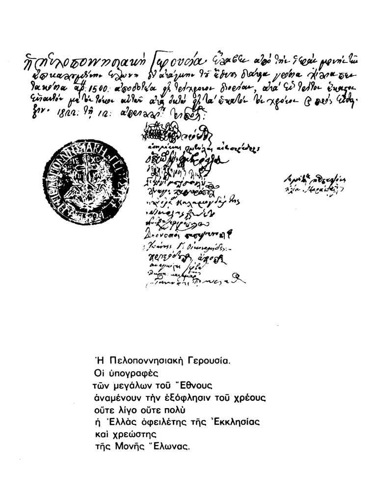 Document of the Peloponnesian Gerousia, appreciating the role of the Monastery of Elona in the Greek Revolution of 1821